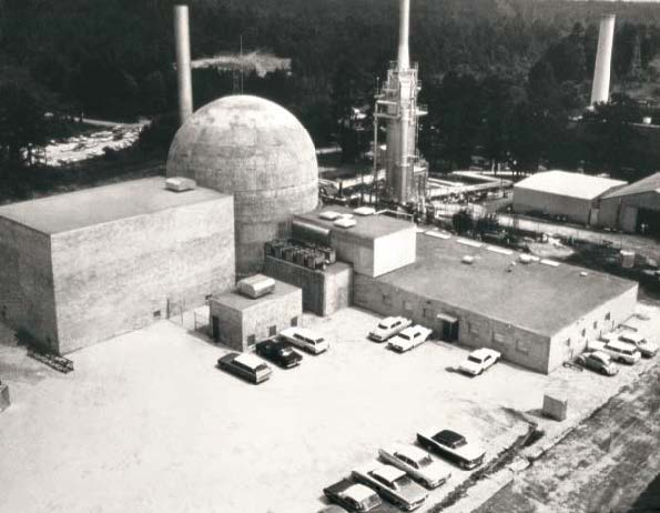 This is an old photograph of the Parr Nuclear Station, also known as the Carolinas-Virginia Tube Reactor. This photograph shows the Nuclear Plant as it looked when it was in operation.